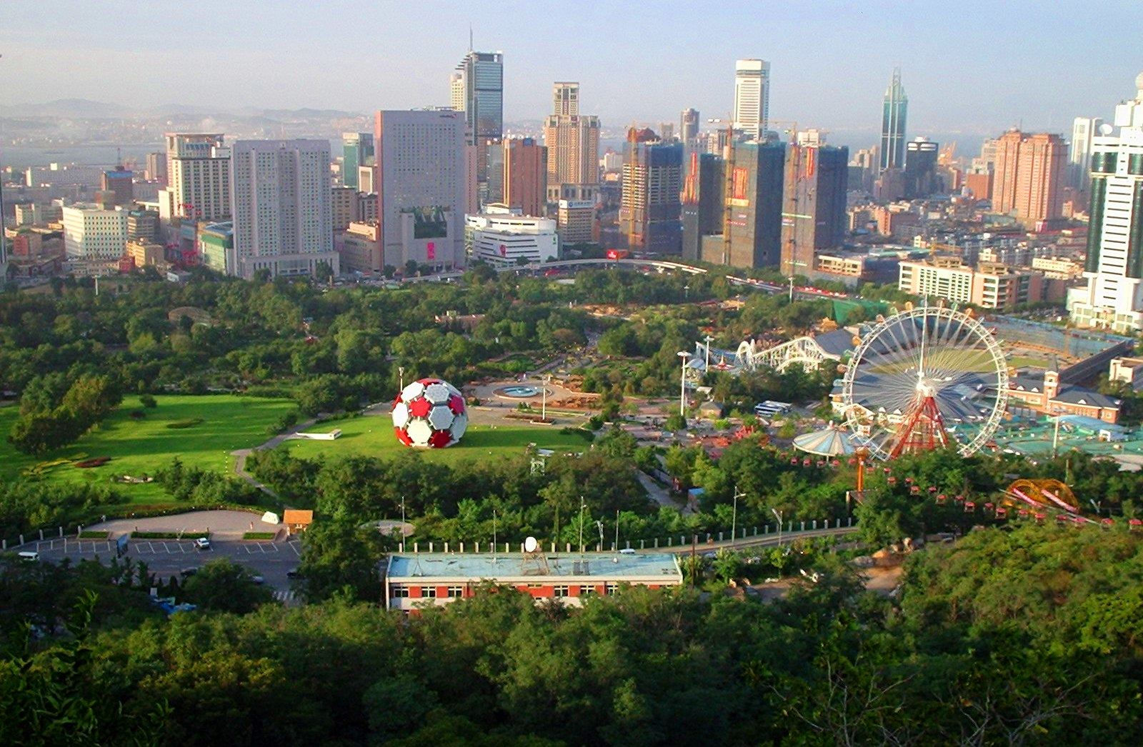 The skyline of Dalian, as seen fro Lushan Hill. Labour Park with its oversized football and ferris wheel can be seen in the foreground.